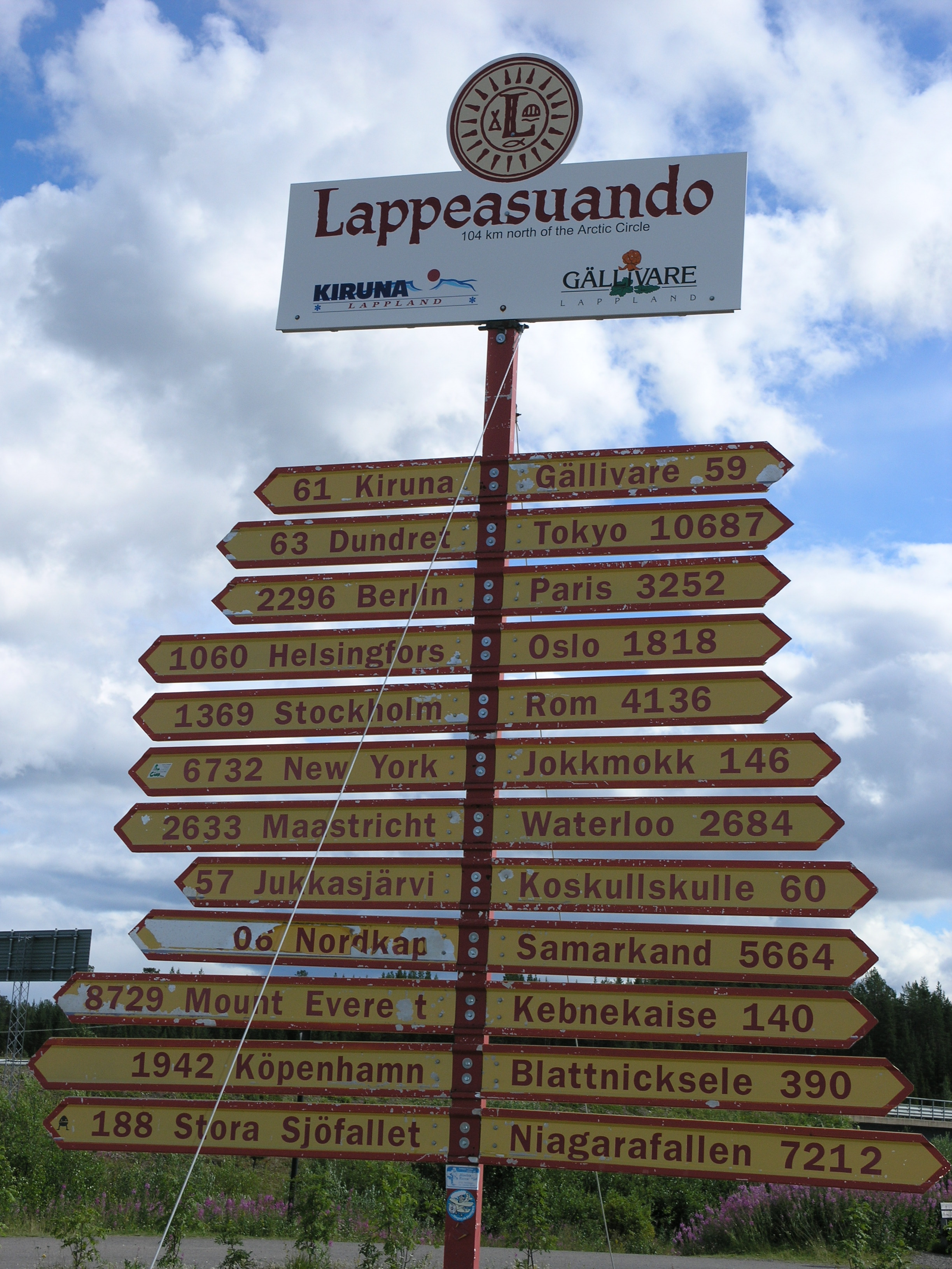 Information Lappeasuando